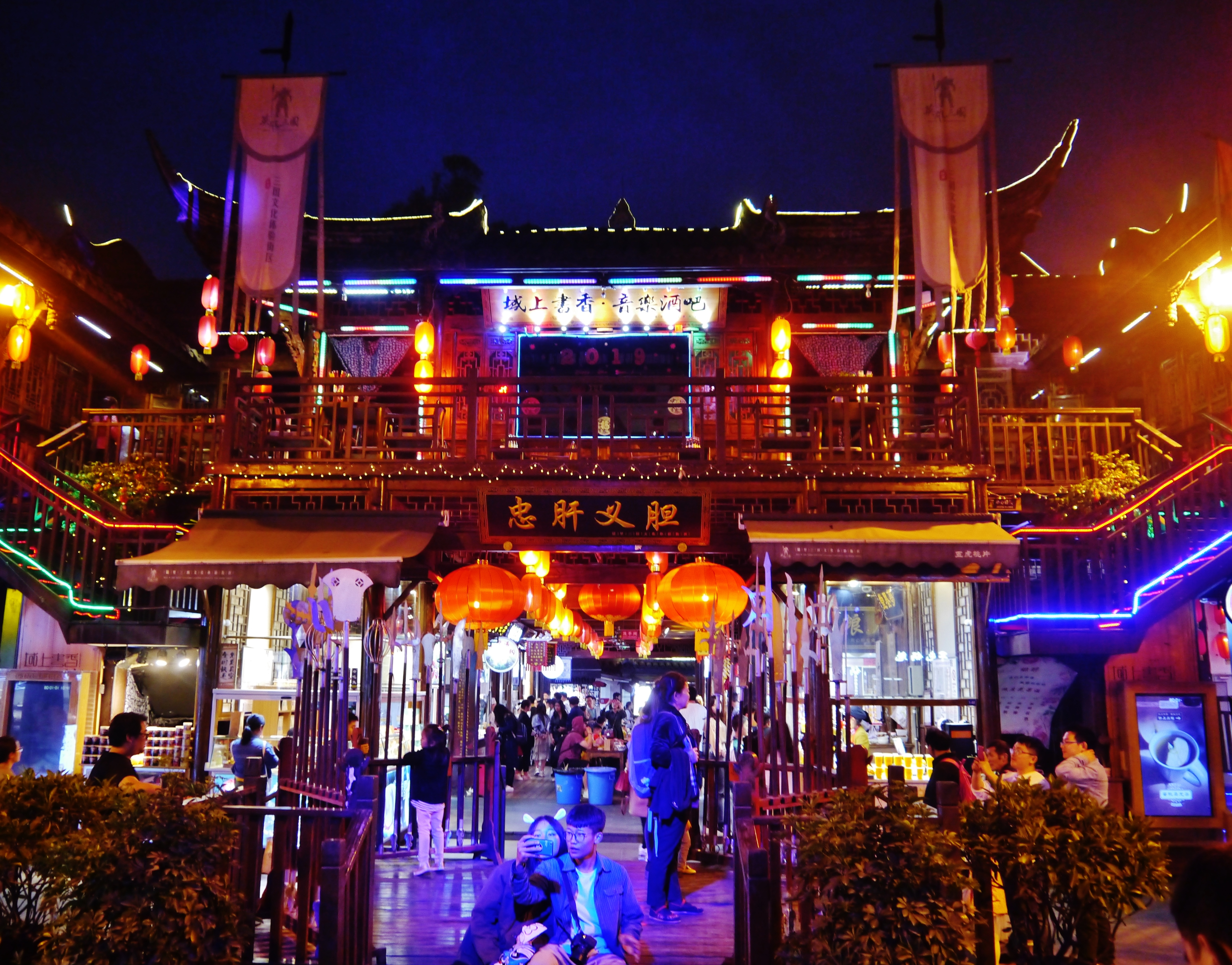 Jinli Street at Night, Chengdu, Province of Chengdu, PR China